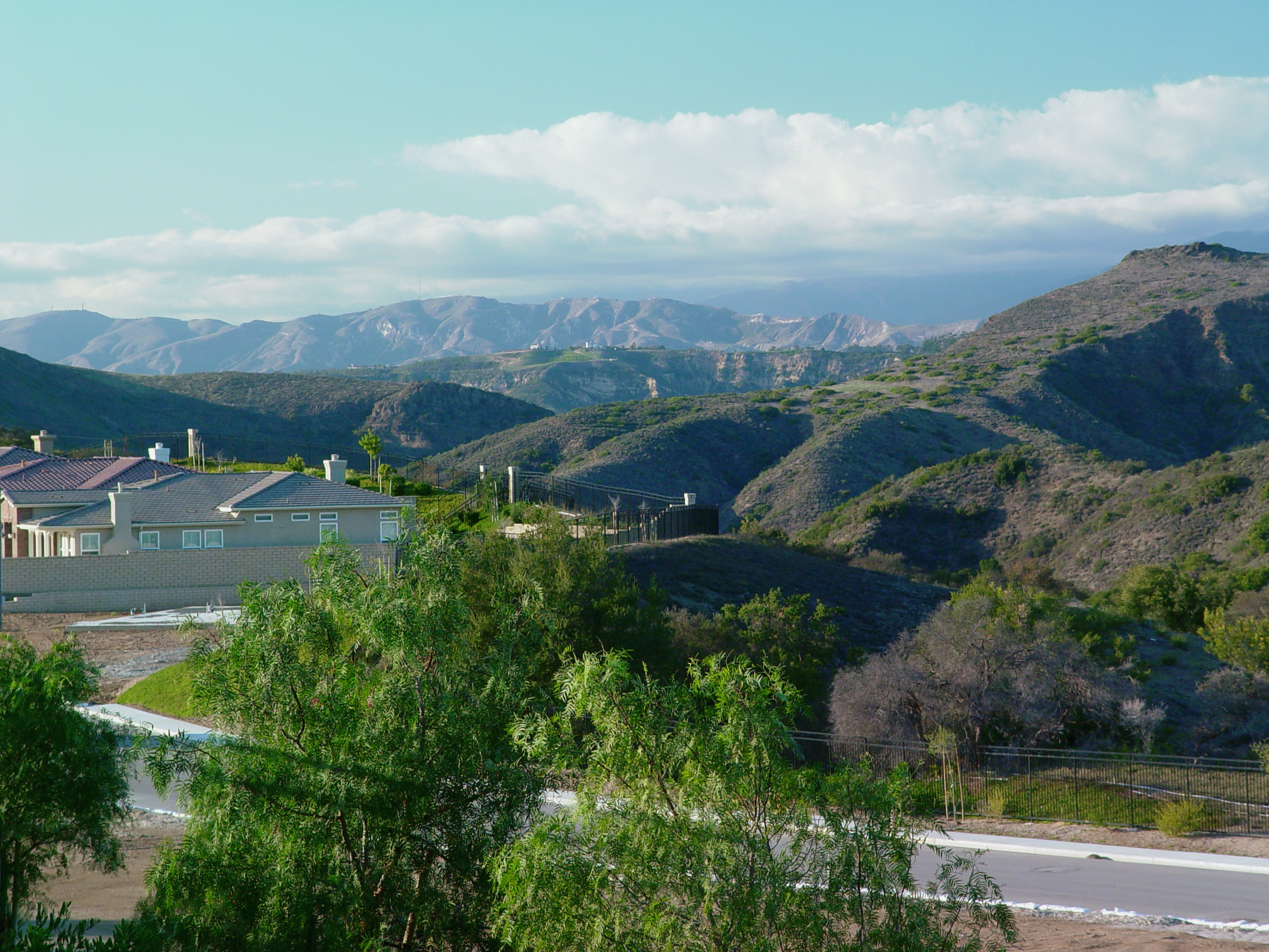 New home construction in Newbury Park — against the backdrop of Wildwood Canyon and the Santa Monica Mountains. Located in Ventura County, California.